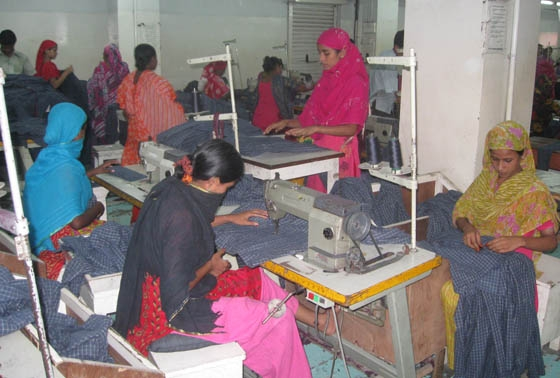 Forge Research